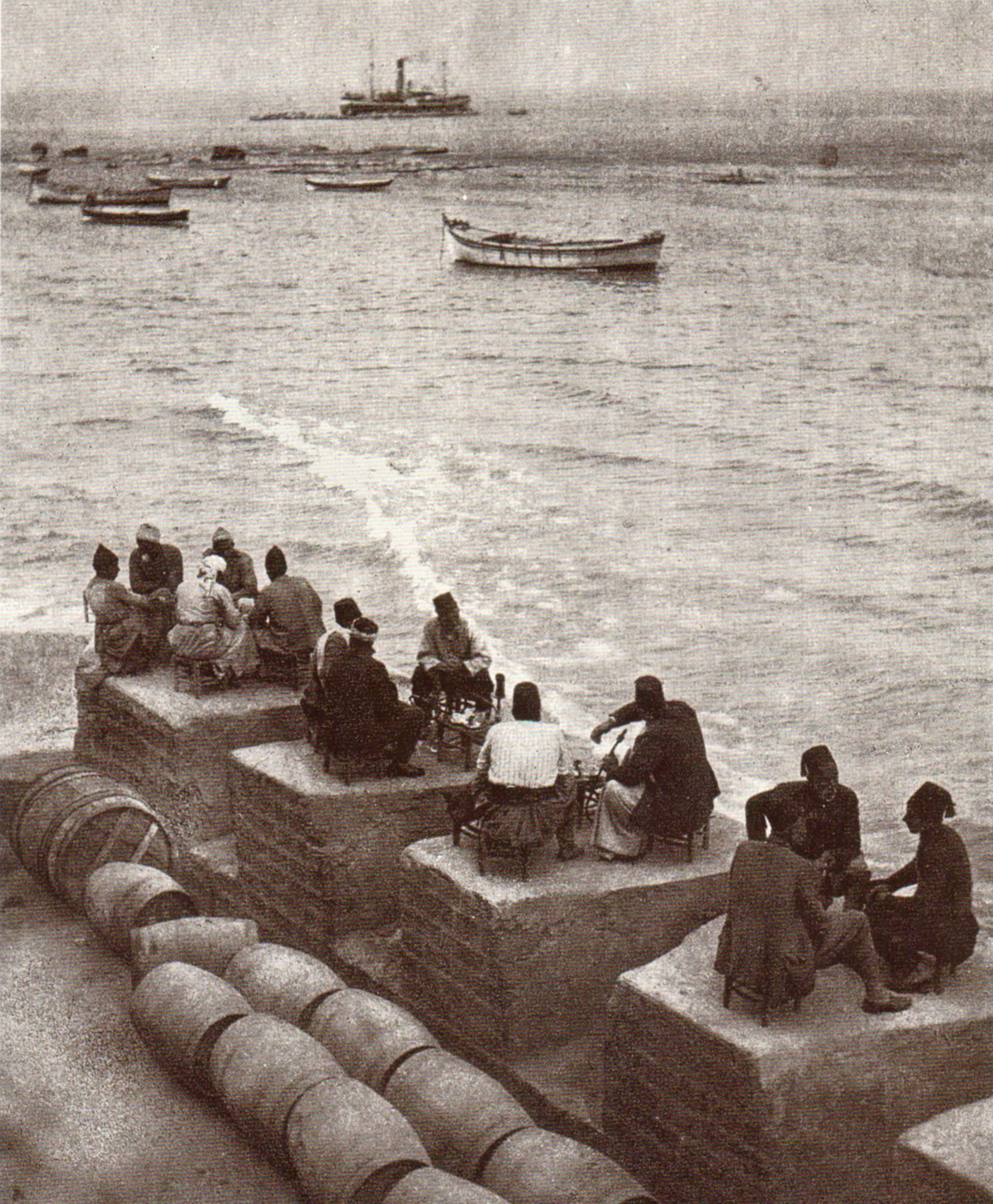 Jaffa Seashore Cafe 1925